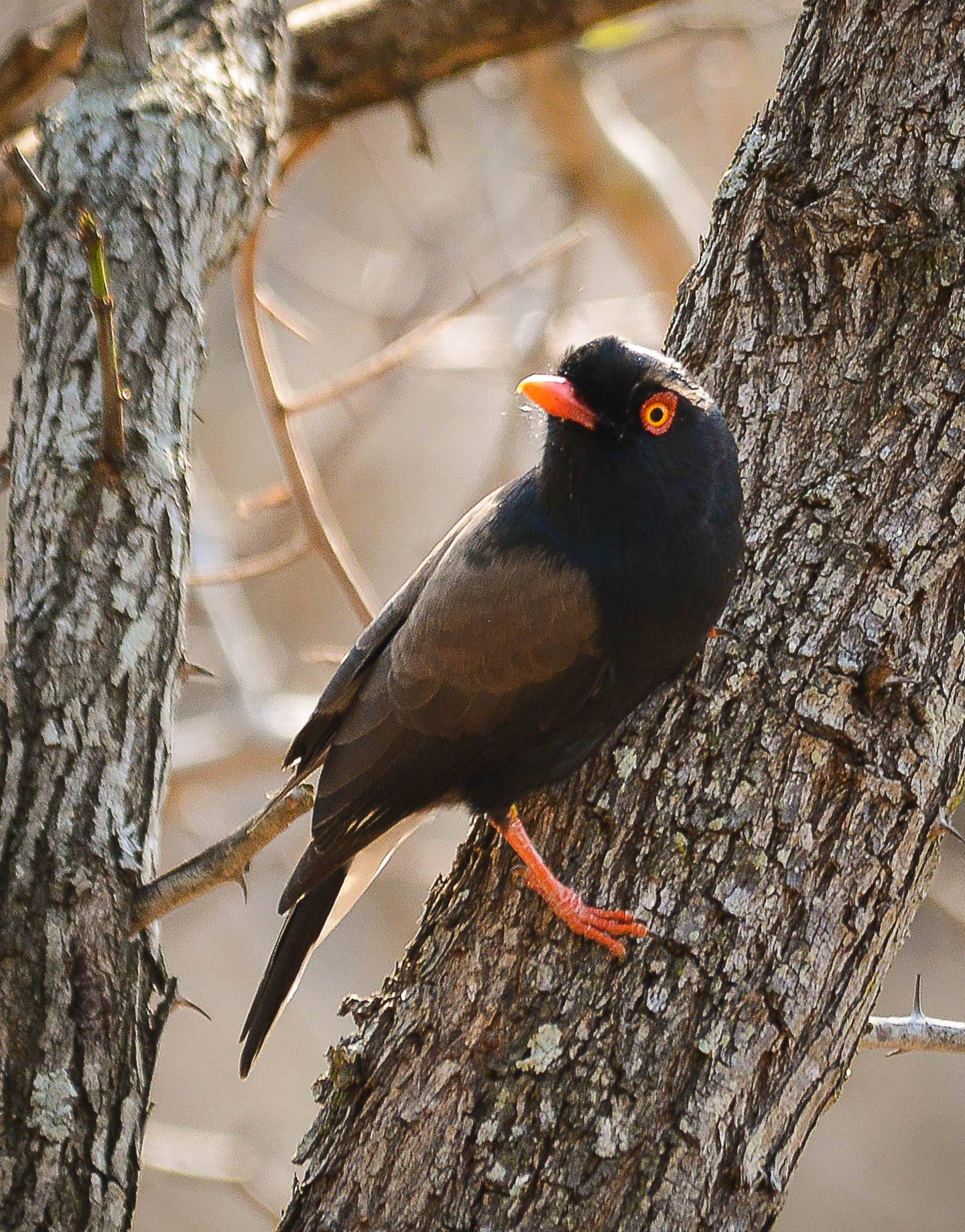 Prionops retzii (Wahlberg, 1856) - Retz's helmetshrike - Komatipoort, South Africa